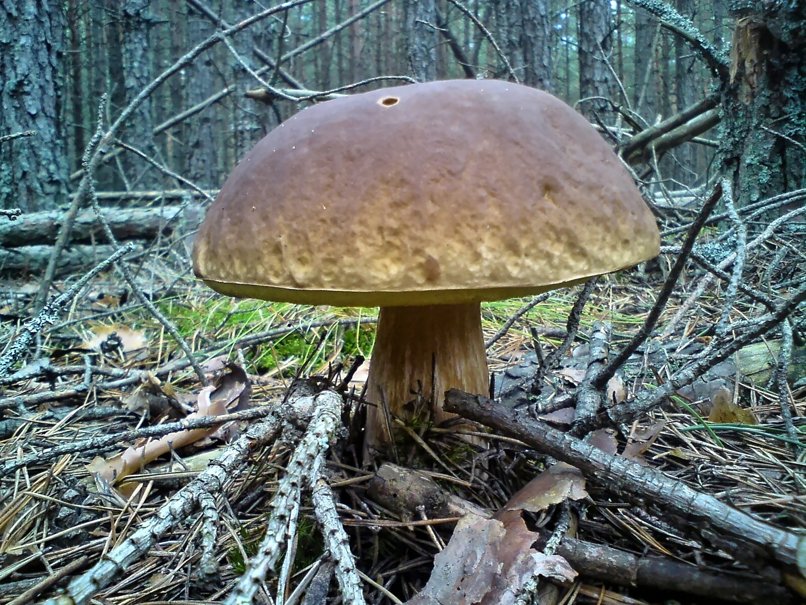 handsome boletus